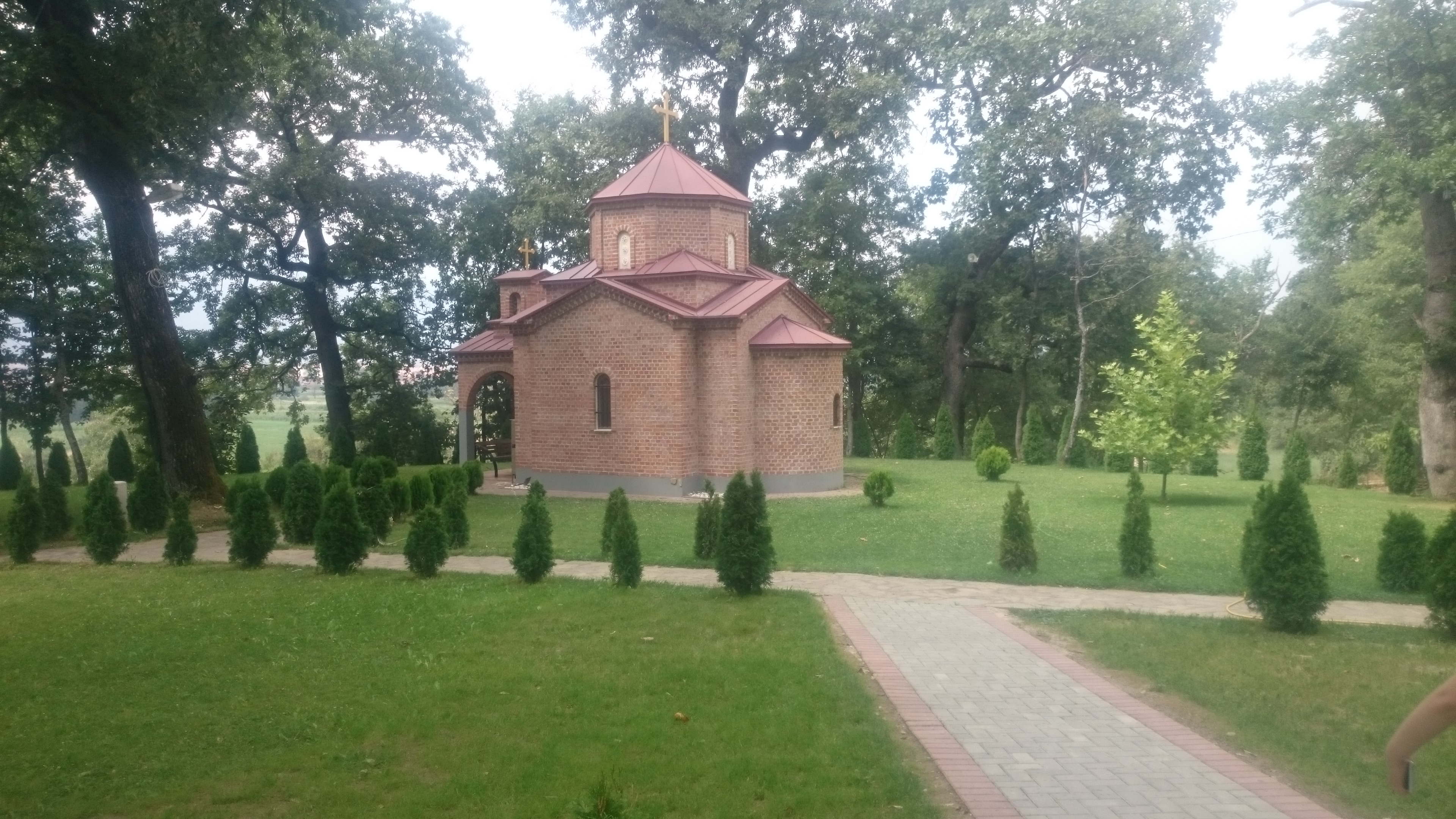 St. Athanasius Church in Belovište near Gostivar, Macedonia